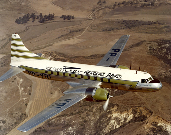 Catalog #: 00054465 Manufacturer: Convair Designation: Model 440 Official Nickname: Notes: Repository: San Diego Air and Space Museum Archive